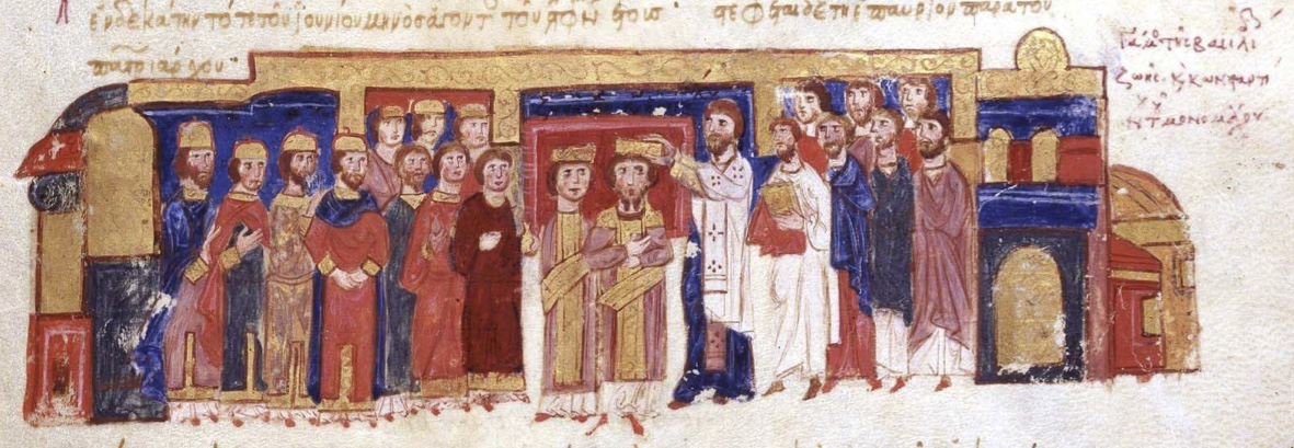 Coronation of Emperor Constantine IX Monomachos at Constantinople